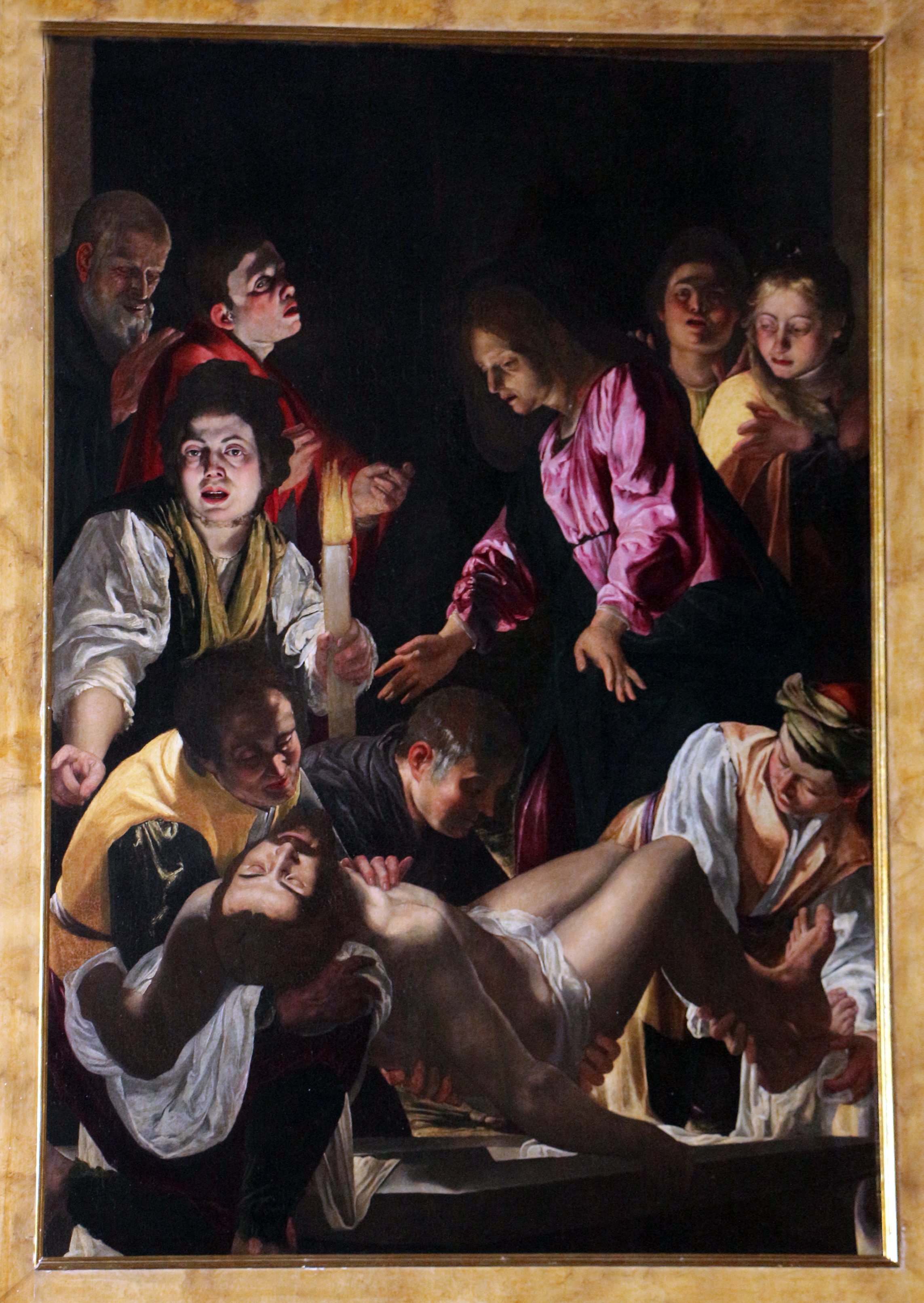 San Frediano (Lucca) - Interior